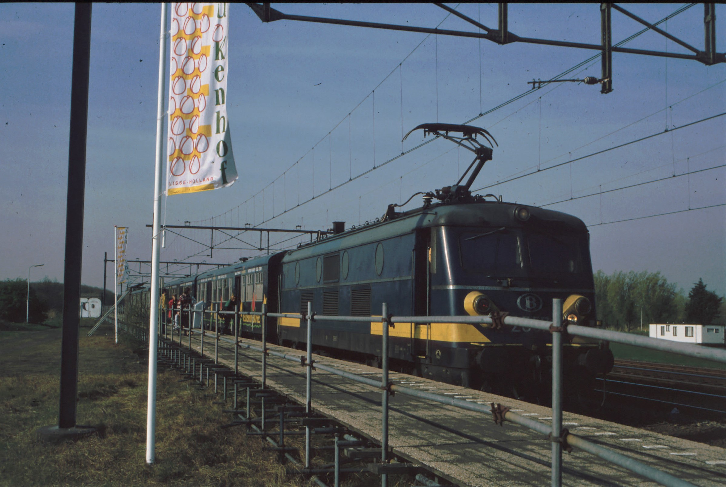 Lovers Keukenhof express at Station Lisse